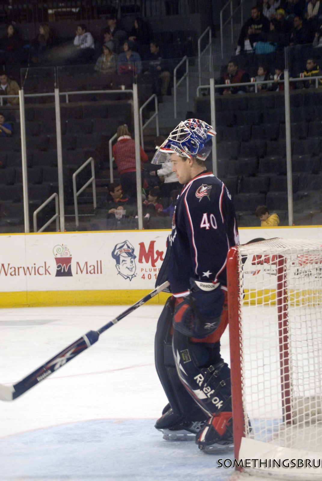 Gustaf Wesslau of the Springfield Falcons during the 2010–11 AHL season. Providence Bruins vs. Springfield Falcons American Hockey League (AHL) Poto taken on December 19, 2010 by Sarah Connors using a Nikon D200. This photo also appears in sarah_connors' Flickr set “Falcons @ Providence, 12/19/10” (Set of 89)